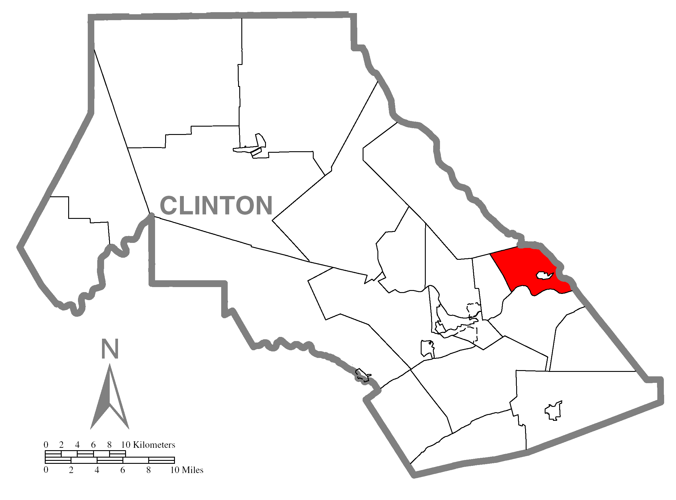 A map of Clinton County showing Pine Creek Township, Pennsylvania (alternate) highlighted on the map.